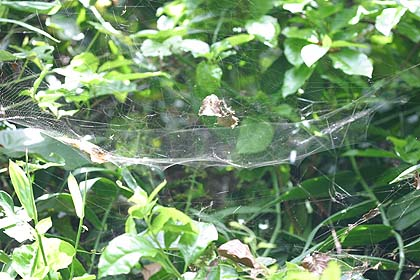 web of Cyrtophora unicolor from Okinawa.